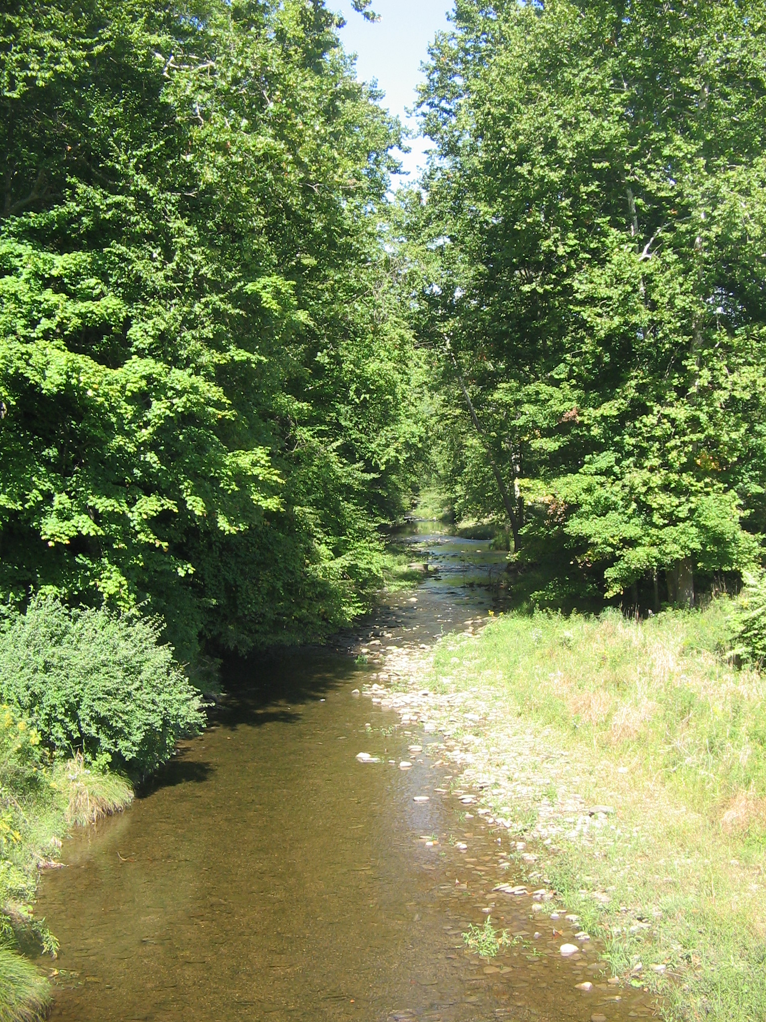 Plunketts Creek, in Plunketts Creek Township, Lycoming County, Pennsylvania, United States, looking upstream from bridge near the mouth